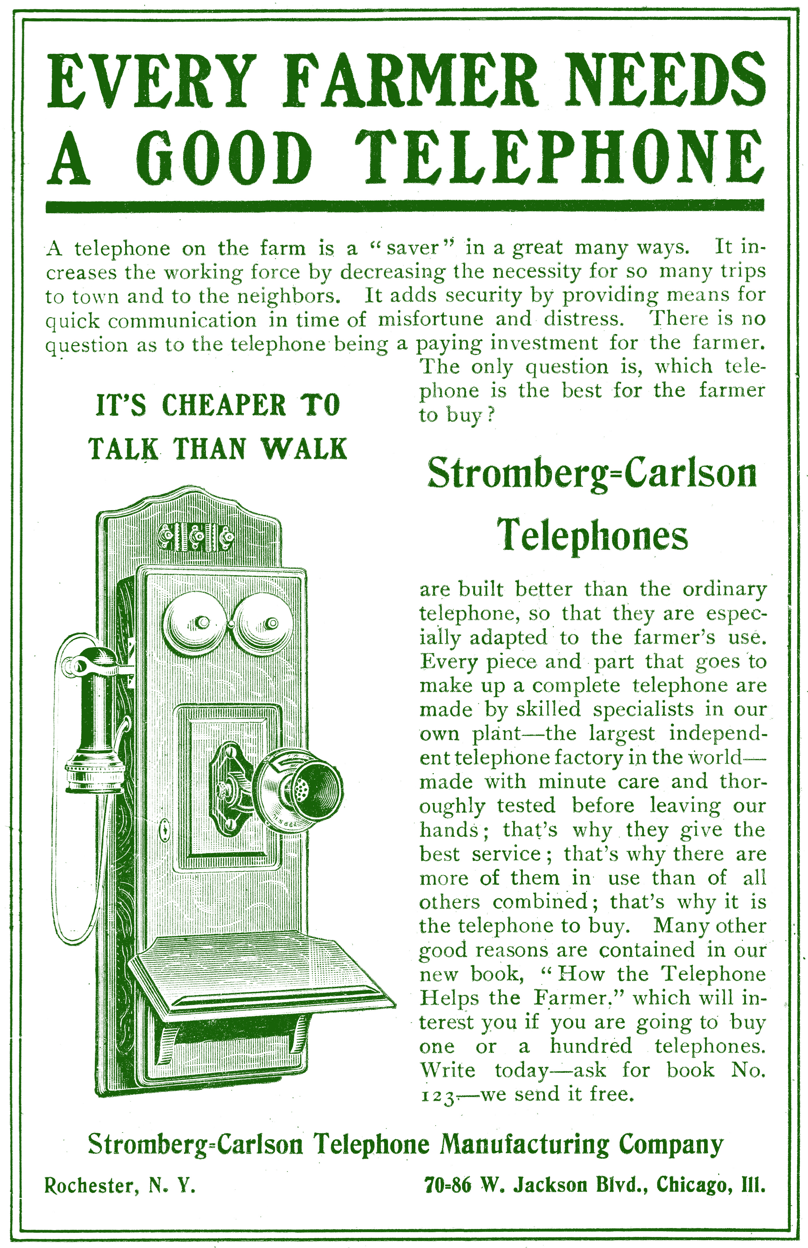 Stromberg-Carlson Telephone Manufacturing Company advertisement for farm/residential wall telephone. 1905